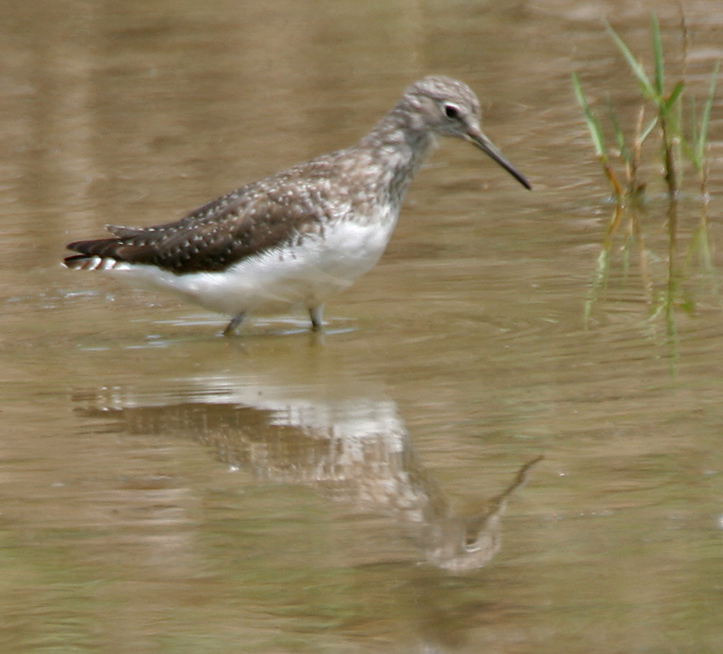 Green Sandpiper Tringa ochropus at Keoladeo National Park, Bharatpur, Rajasthan, India.